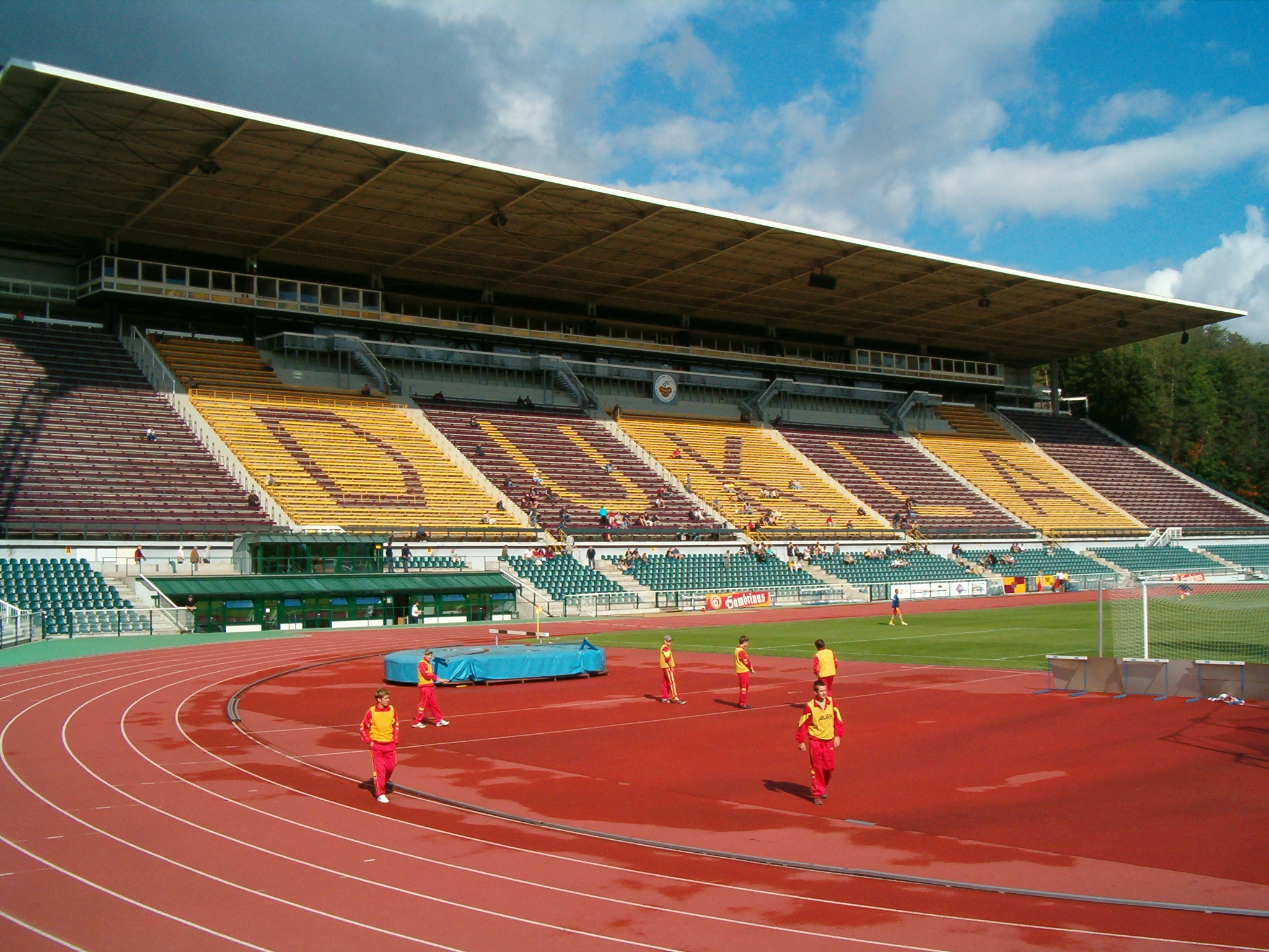 Na Julisce Stadium